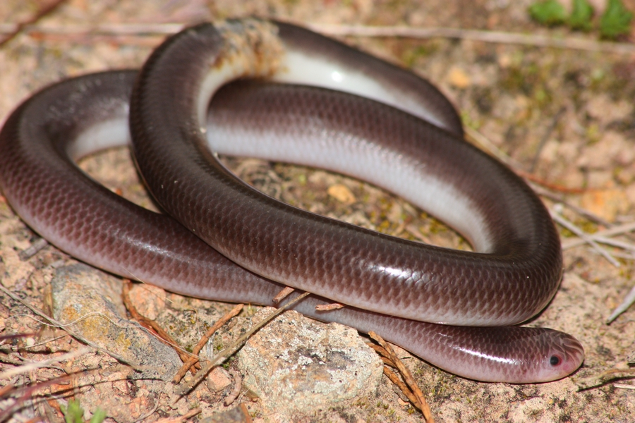 A Ramphotyphlops ligatus in Sundown National Park, Queensland